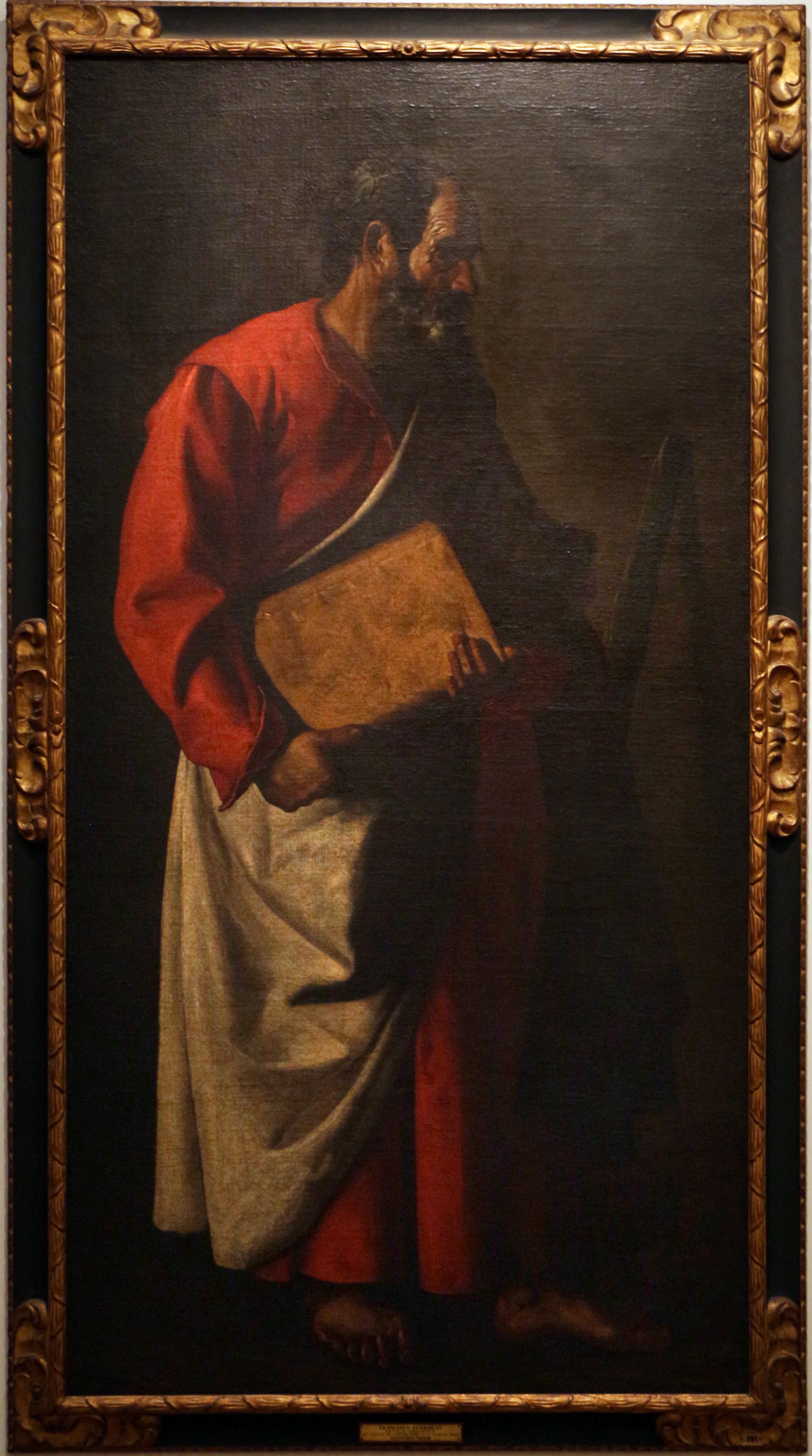 Spanish paintings in the Museu Nacional de Arte Antiga